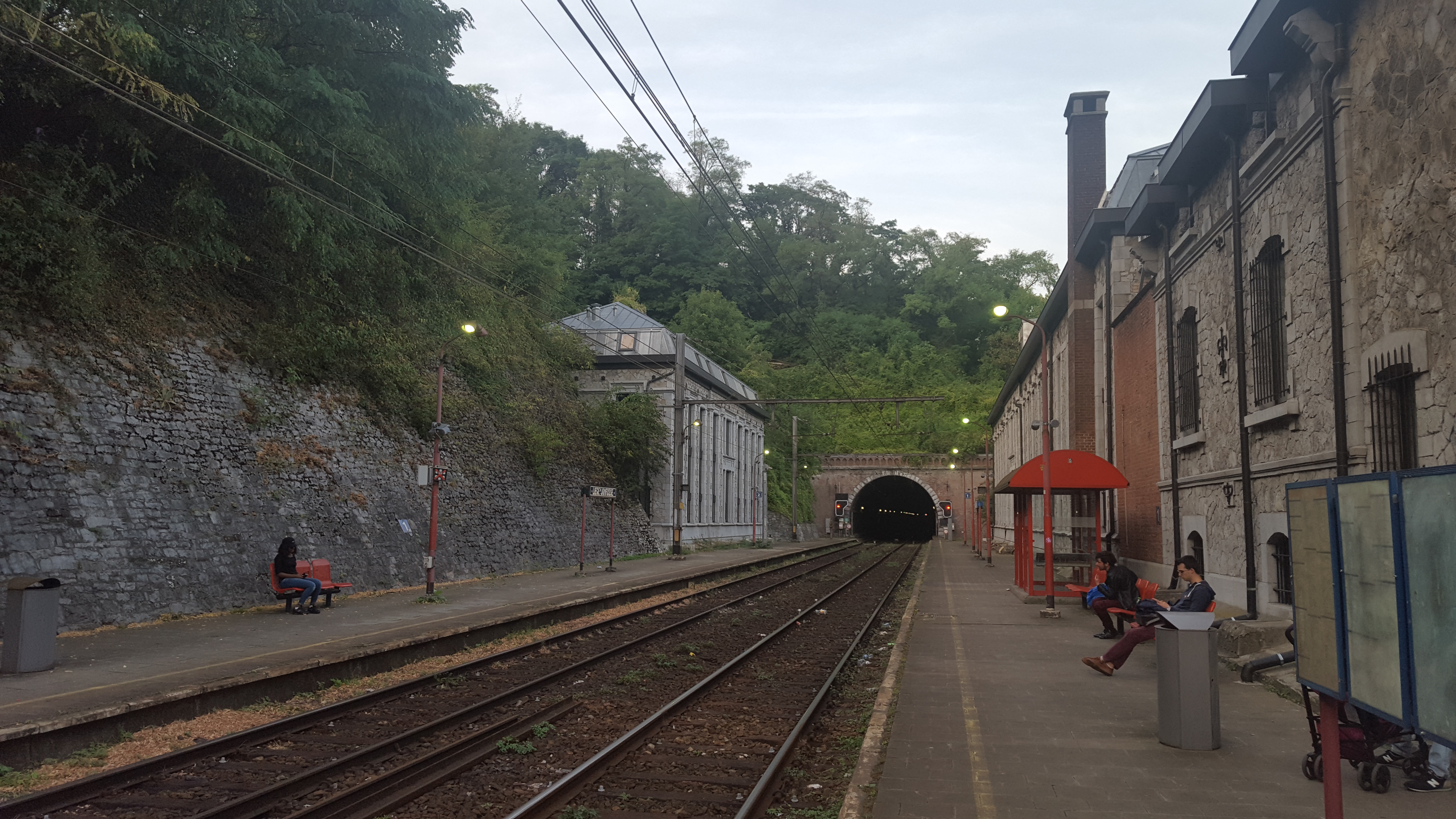 Liège-Jonfosse train station, Liège, Belgium